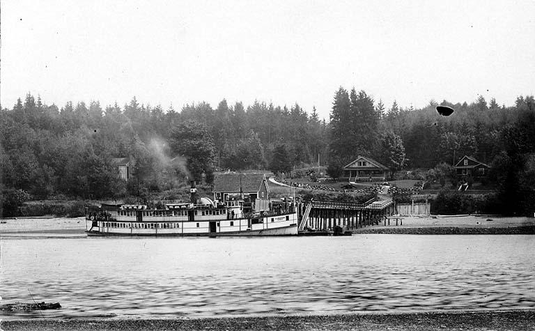 Reliance (steamboat) at Port Madison, Washington, USA, ca 1914. From an old postcard.